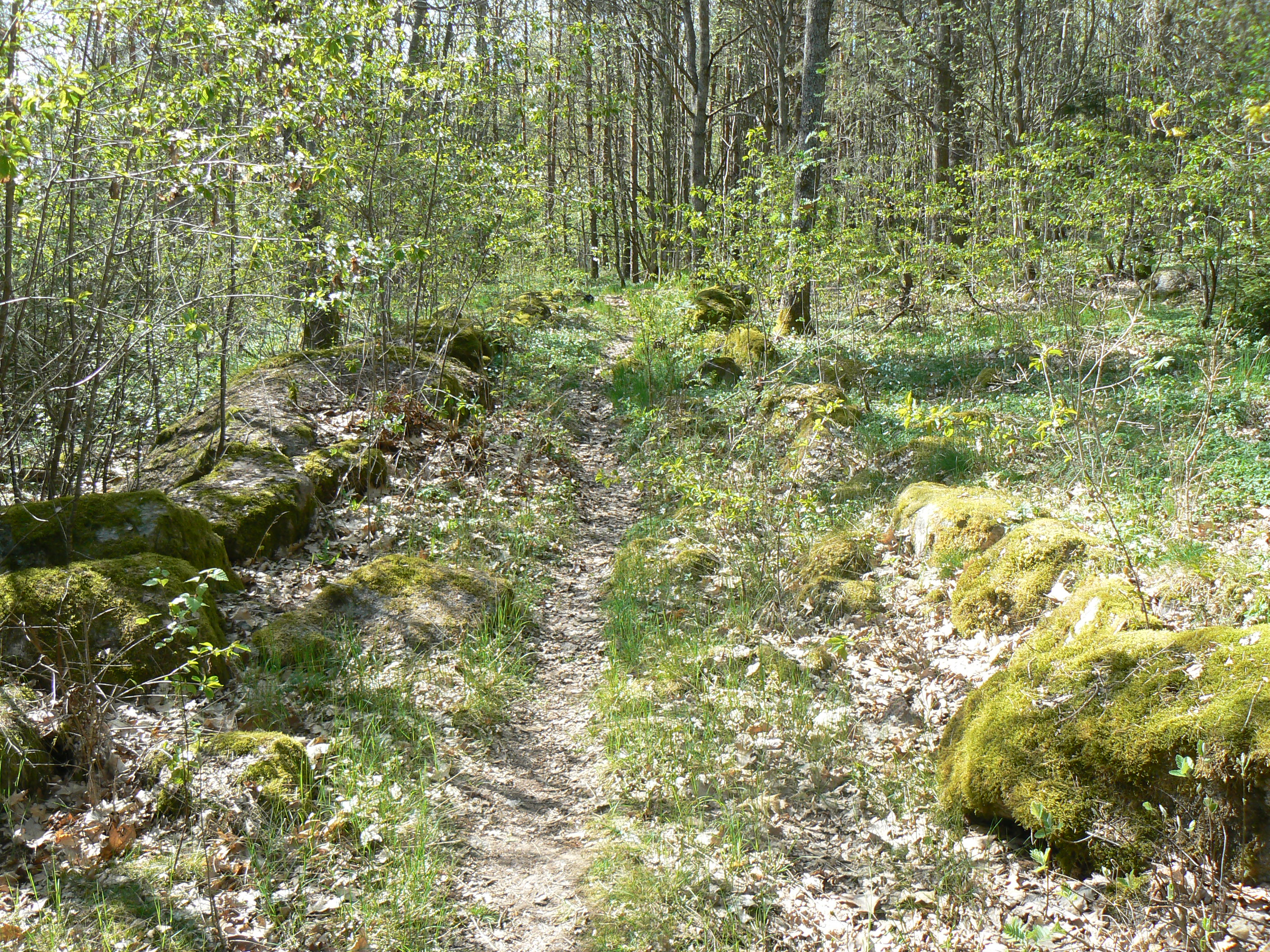 Iron age "fägata" (RAÄ No Linköping 226:1), leavings of walls between which cattle was lead to pastureland. Picture from Vallaskogen ("Valla forrest") in Linköping, Linköping municipality, Östergötland, Sweden.